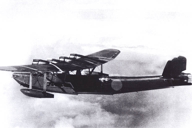 Kawanishi H6K in flight. Note bomb rack with bombs on wing-brace.